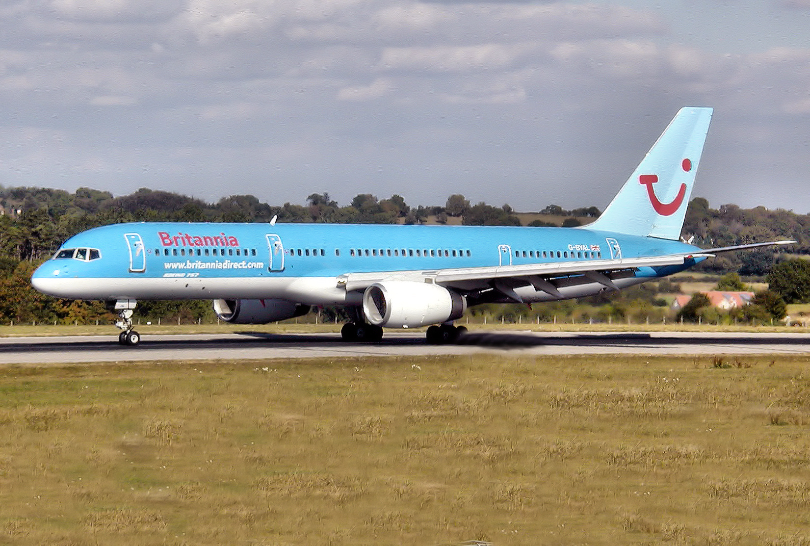 Britannia Airways Boeing 757-200 (G-BYAL) at Bristol International Airport, Bristol, England, U.K.